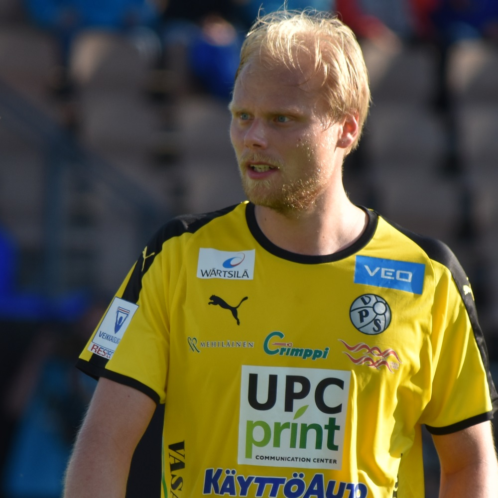 Football player Timi Lahti (VPS)